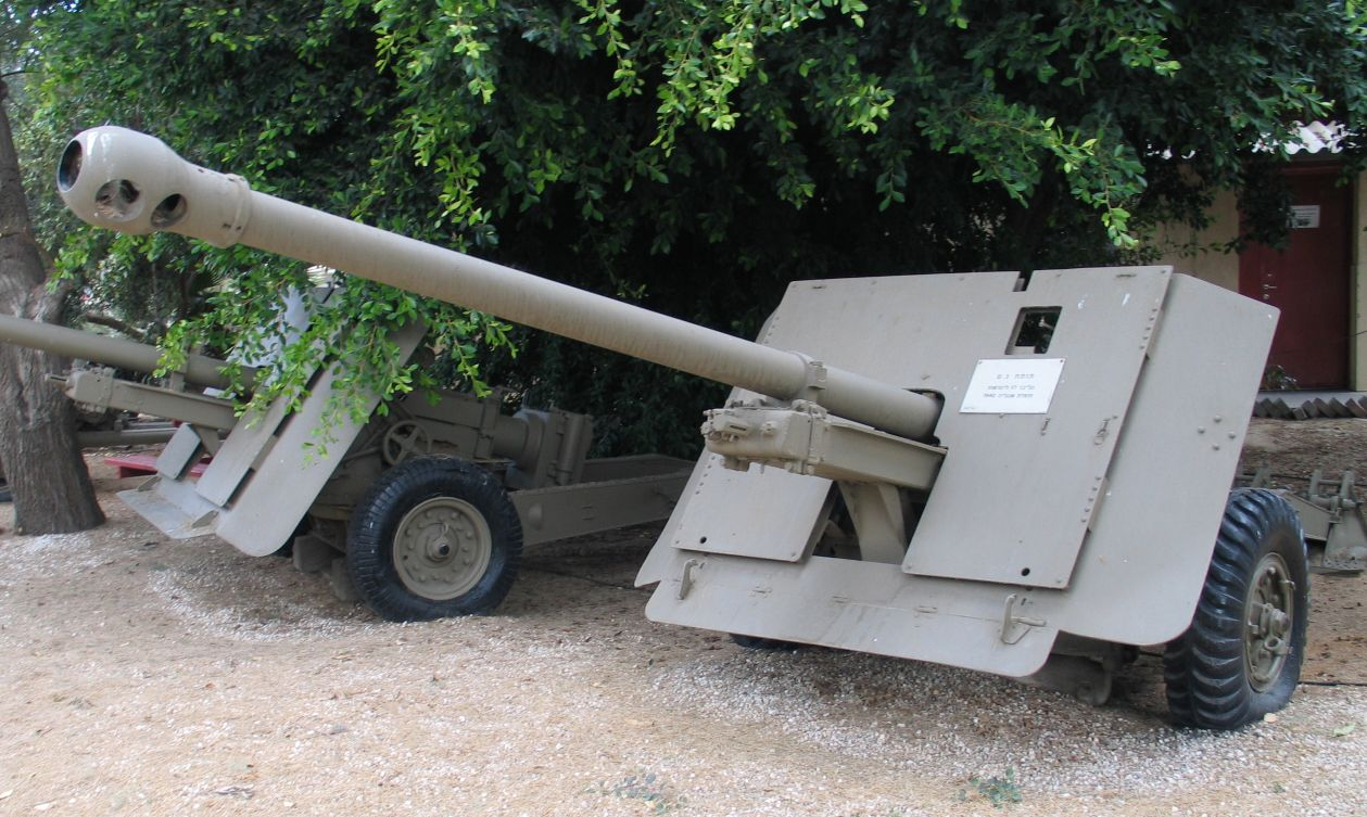 Description: British Ordnance QF 17 pounder anti-tank cannon -n Batey ha-Osef Museum, Tel Aviv, Israel. 2005. Source: Photo by me, User:Bukvoed.